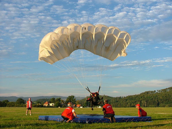 Jelenia Gora - accuracy of landing